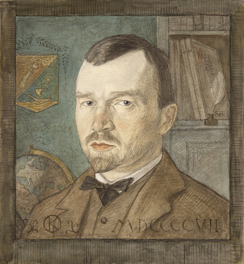 Portrait of Werner Lundqvist